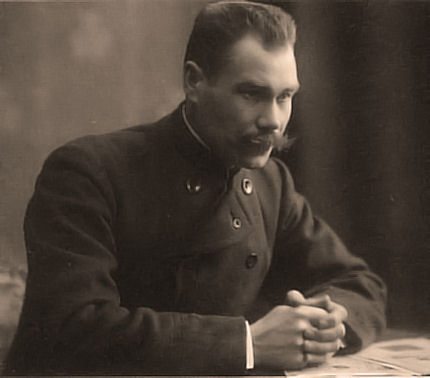 Johannes Linnankoski (real name Vihtori Peltonen), Finnish writer